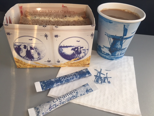 KLM economy class in-flight meal 2016